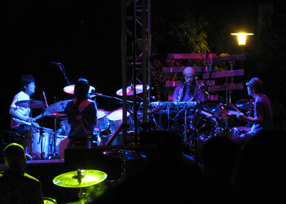 Boredoms live in LA